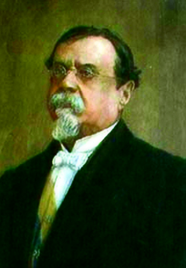 A painting about Miguel Antonio Caro a president from Colombia